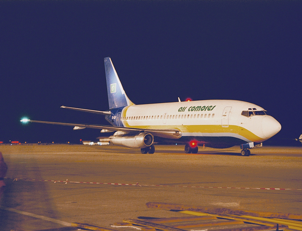 Basic Time Air Sweden c/s.